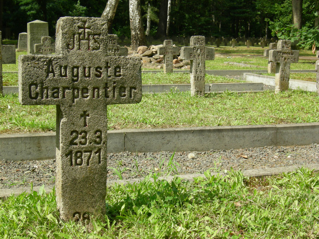 Tombstones of french POW of the french-prussian war of 1870